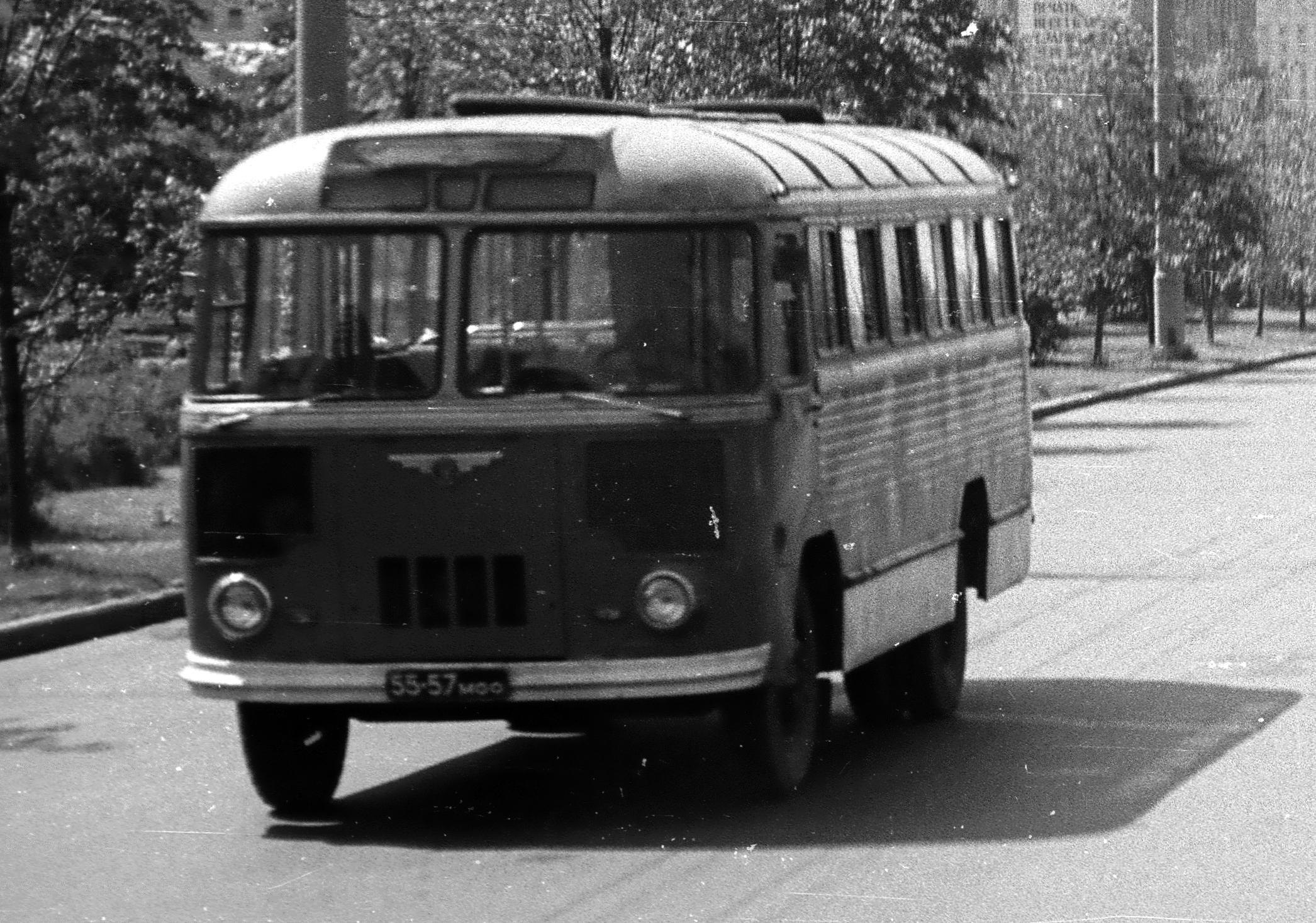 PAZ-652 bus in Moscow, 1967.